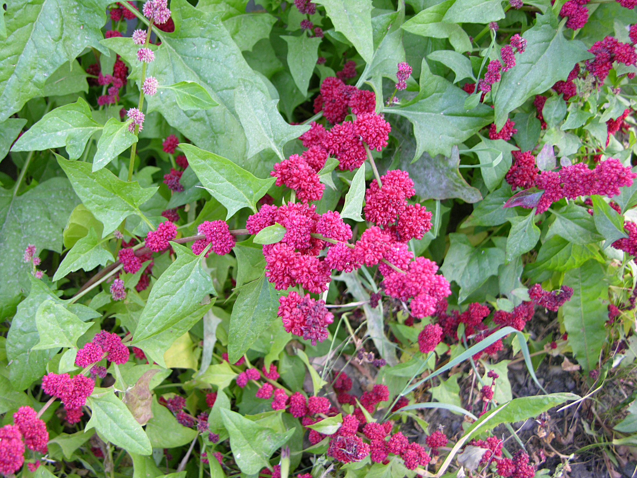 Picture of the Strawberry Blite (Chenopodium capitatum).